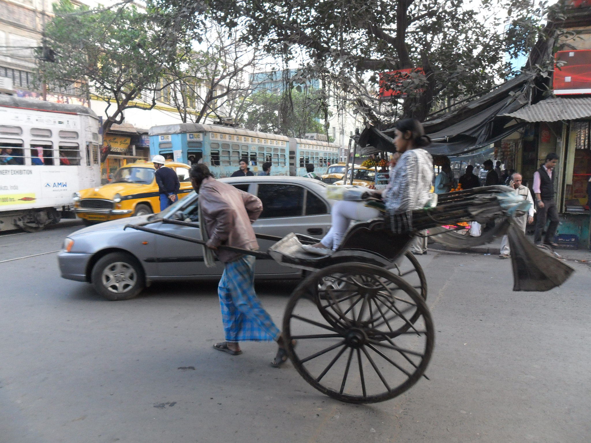 Traffic in Kolkata (Calcutta) , India